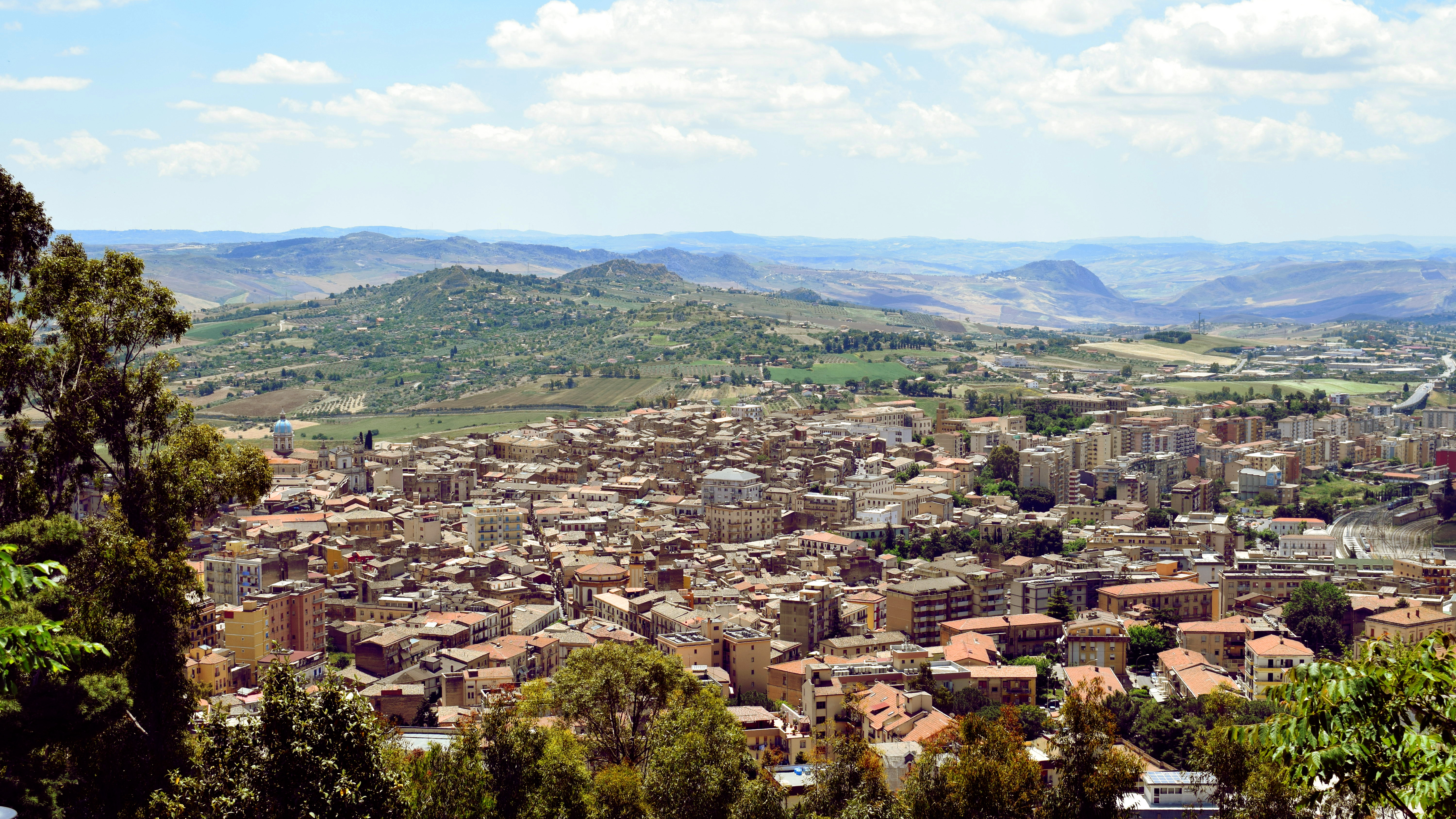 Partial view of Caltanissetta, Italy, from the top of Mount San Giuliano.